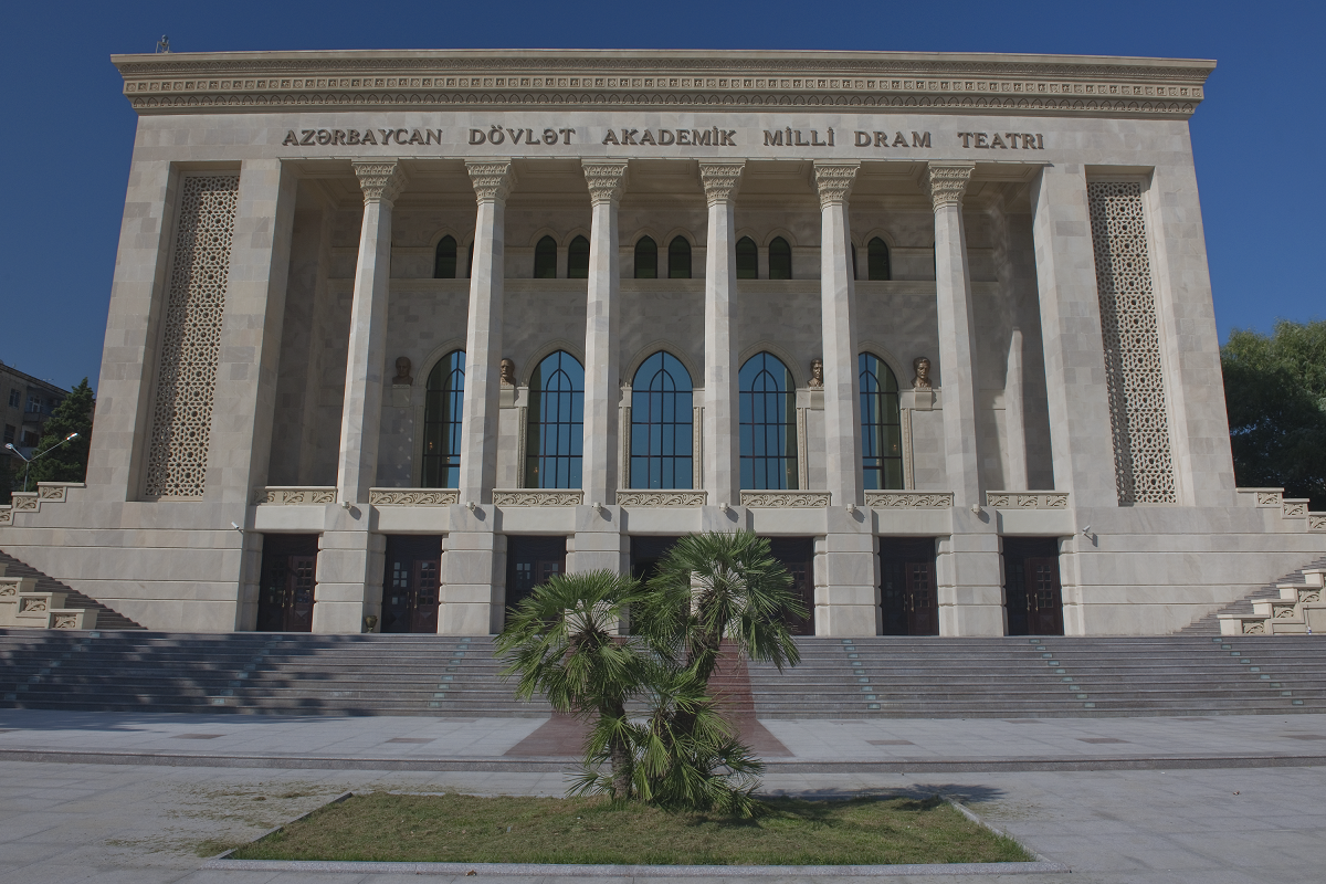 Az_Drama_2